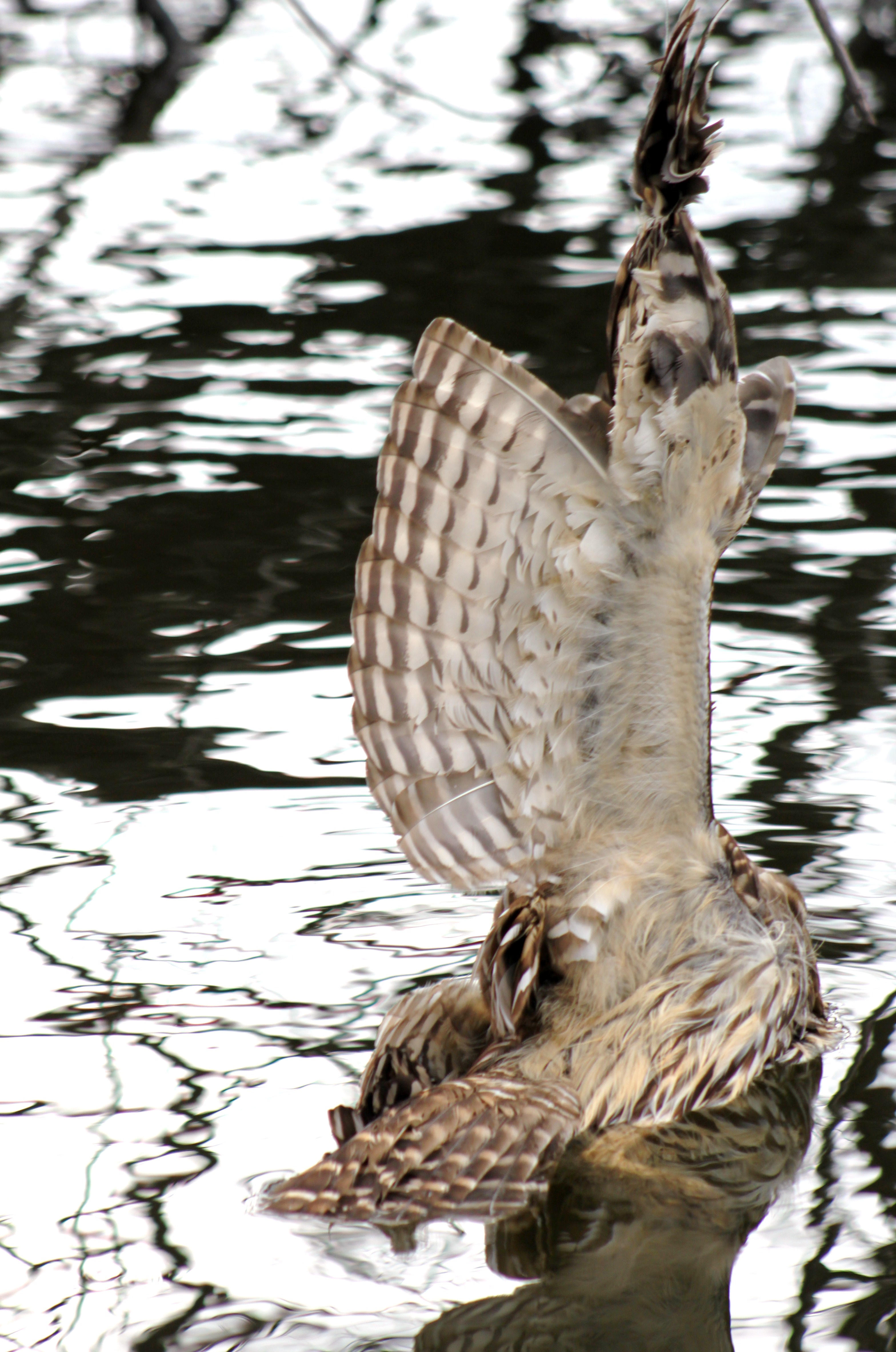 Why we need to dispose of fishing line responsibly. credit: Ken Sturm/USFWS